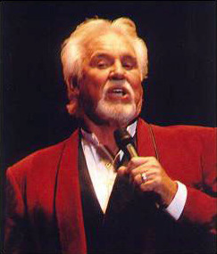 Kenny Rogers - Nov 2004 Photo by Alan C. Teeple User:ACT1